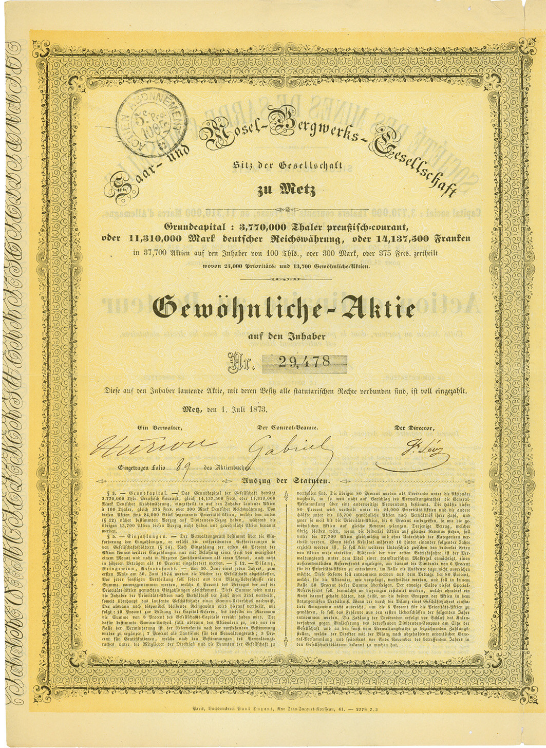 Share of the Saar- und Mosel-Bergwerks-Gesellschaft, issued 1. July 1873